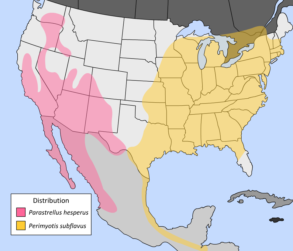 Distribution of the Western and Eastern Pipistrelles. This is based on a graph from a 1950 book on Project Gutenberg.Dalquest, Walter Woelber; Eugene Raymond Hall (20 January 1950) "A Synopsis of the American Bats of the Genus Pipistrellus by Dalquest and Hall" , 1, Lawrence, Kansas: University of Kansas, pp. 591-602